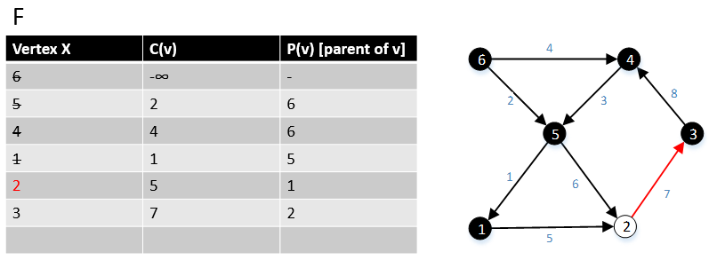 MBSA-GT-example-4